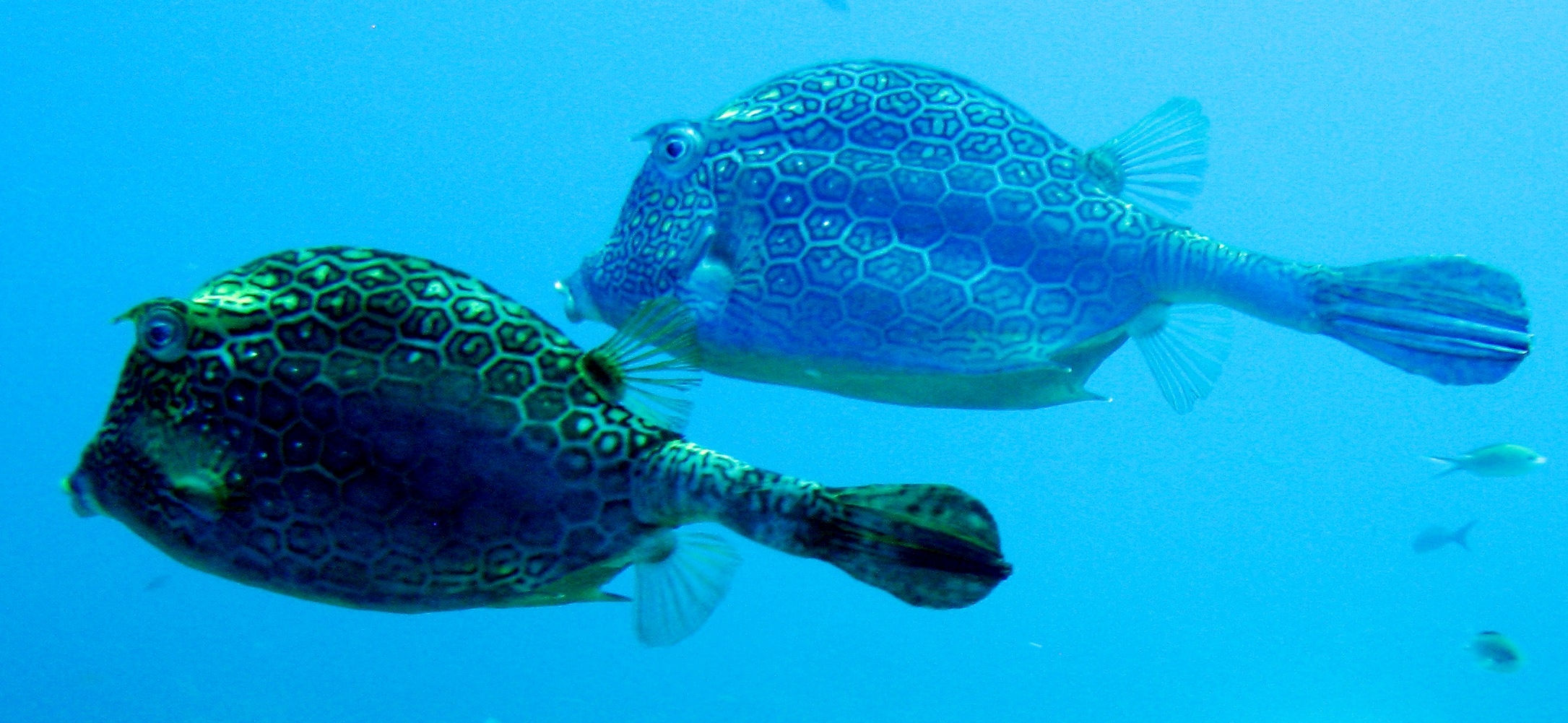 Acanthostracion poligonius in the Gulf of Mexico